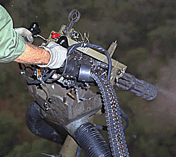 Cropped version of File:HH-3-minigun-vietnam-19681710.gif